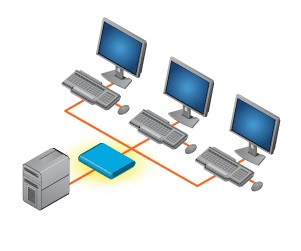 KVM Splitter Diagram